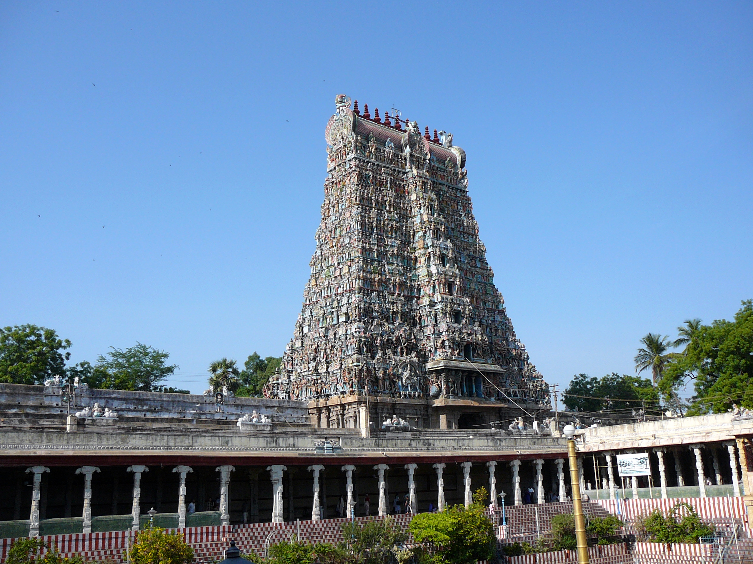 Gopuram of the Meenakshi Amman Temple at Madurai